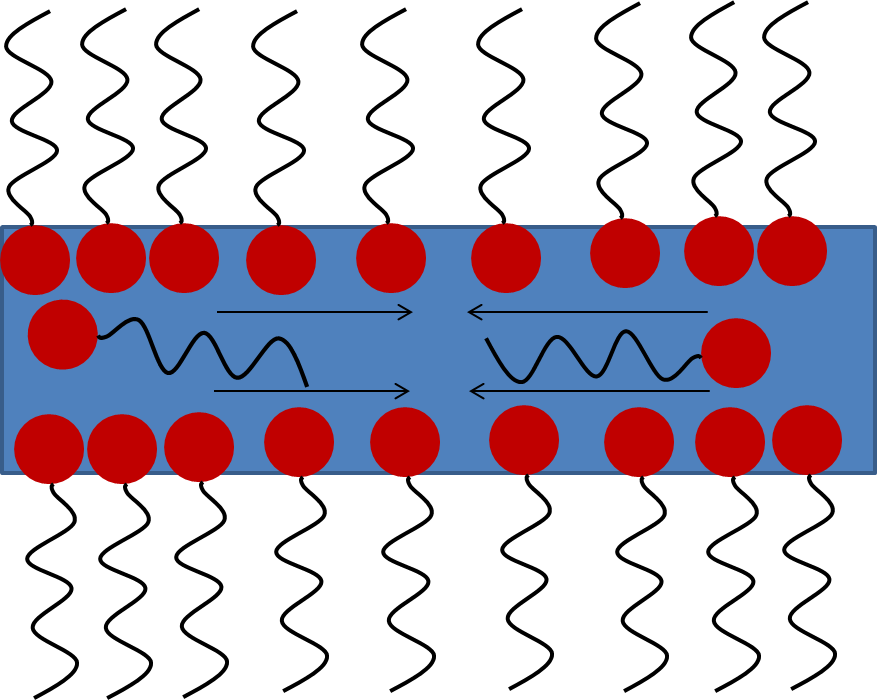 Scheme of Marangoni effects due to surface concentration gradients in a soap film